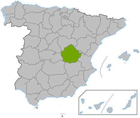 Location of the province of Cuenca, in Spain. Basado en: ProvPont.jpg Source: Designed by Satesclop. Original picture, designed by Sobreira.